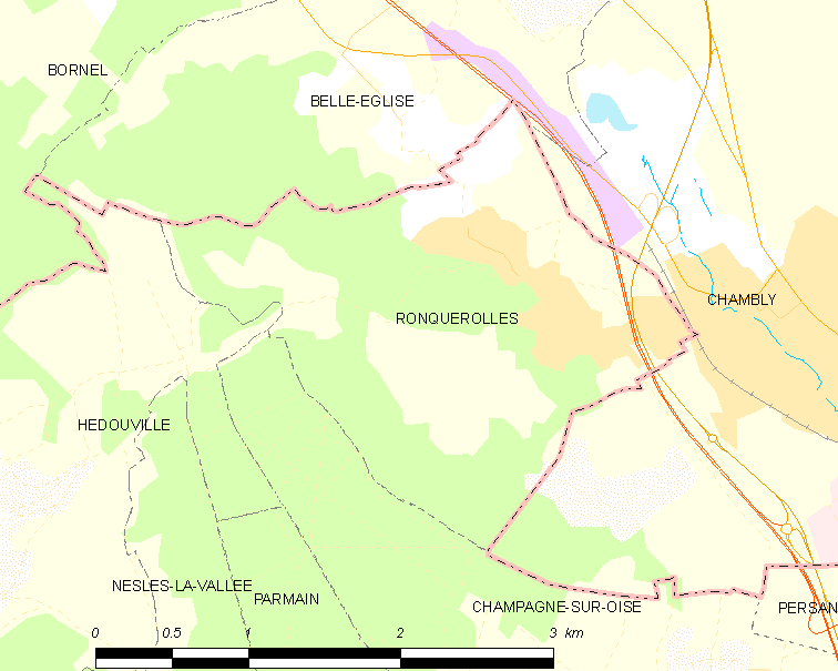 Map of French municipality Ronquerolles